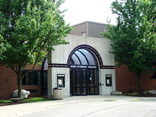 Quirk Dramatic Arts Building at Eastern Michigan University in Ypsilanti Michigan